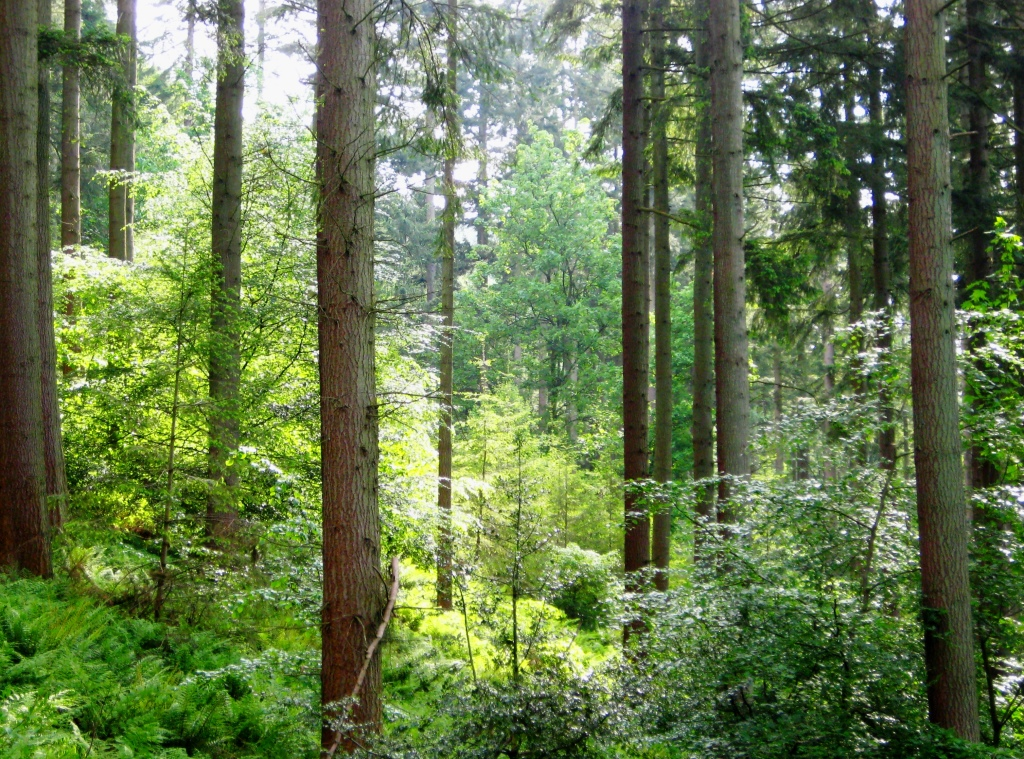 Continuous cover forestry ; This image shows an 85 year old stand of Douglas fir in the process of transformation to a continuous cover forest. Small gaps created in the canopy are enabling a wide variety of species to regeneration and develop in the understorey. A continual cycle of interventions is leading to a progressively more irregular structure, through time.